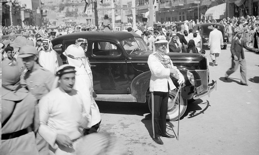 Amman, Jordan September 11th, 1940. 24th anniversary of Arab revolt under King Hussein & Lawrence, celebration